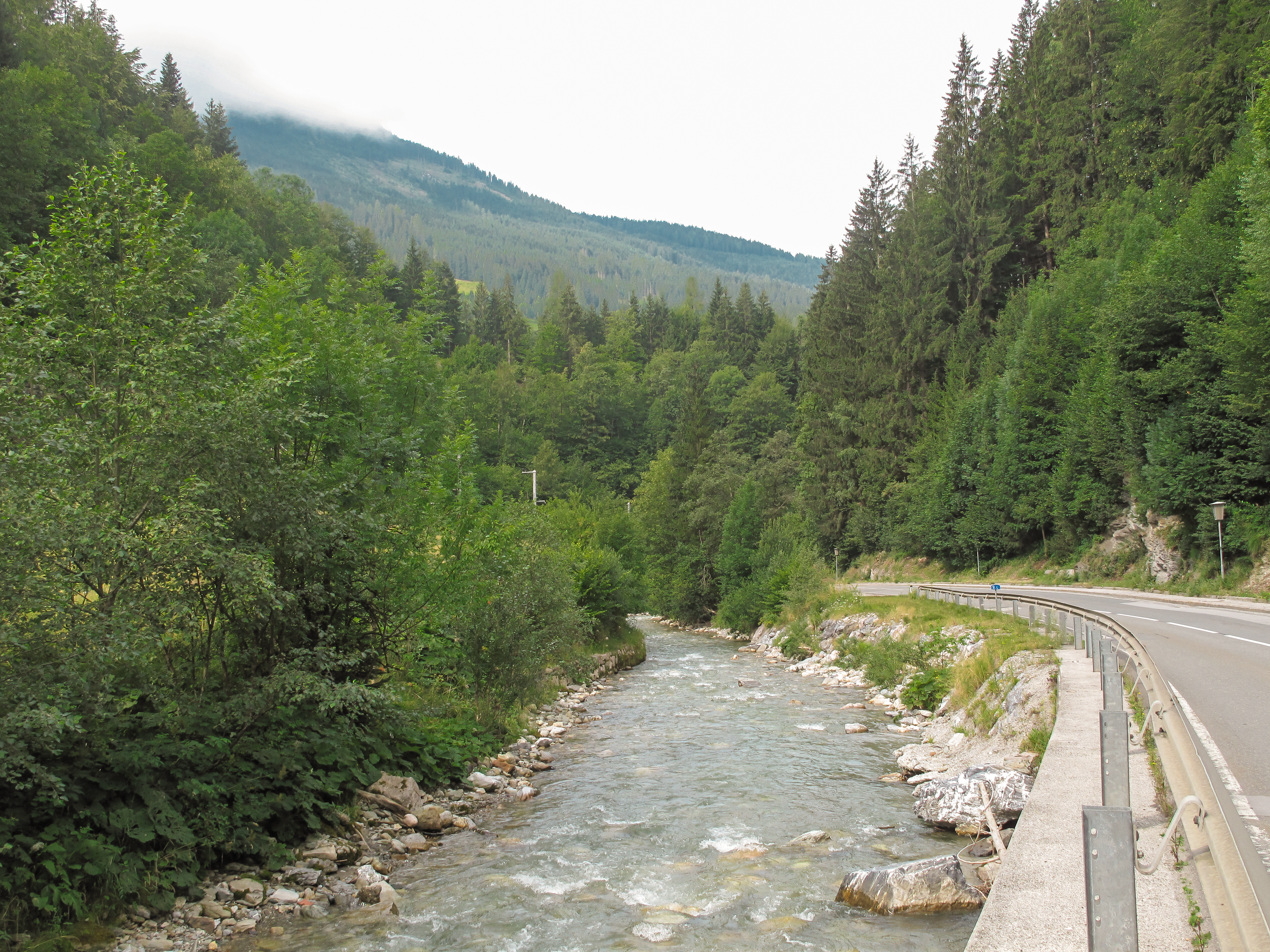 Between_Hüttau_and_Niederfritz,_river: der_Fritbach_